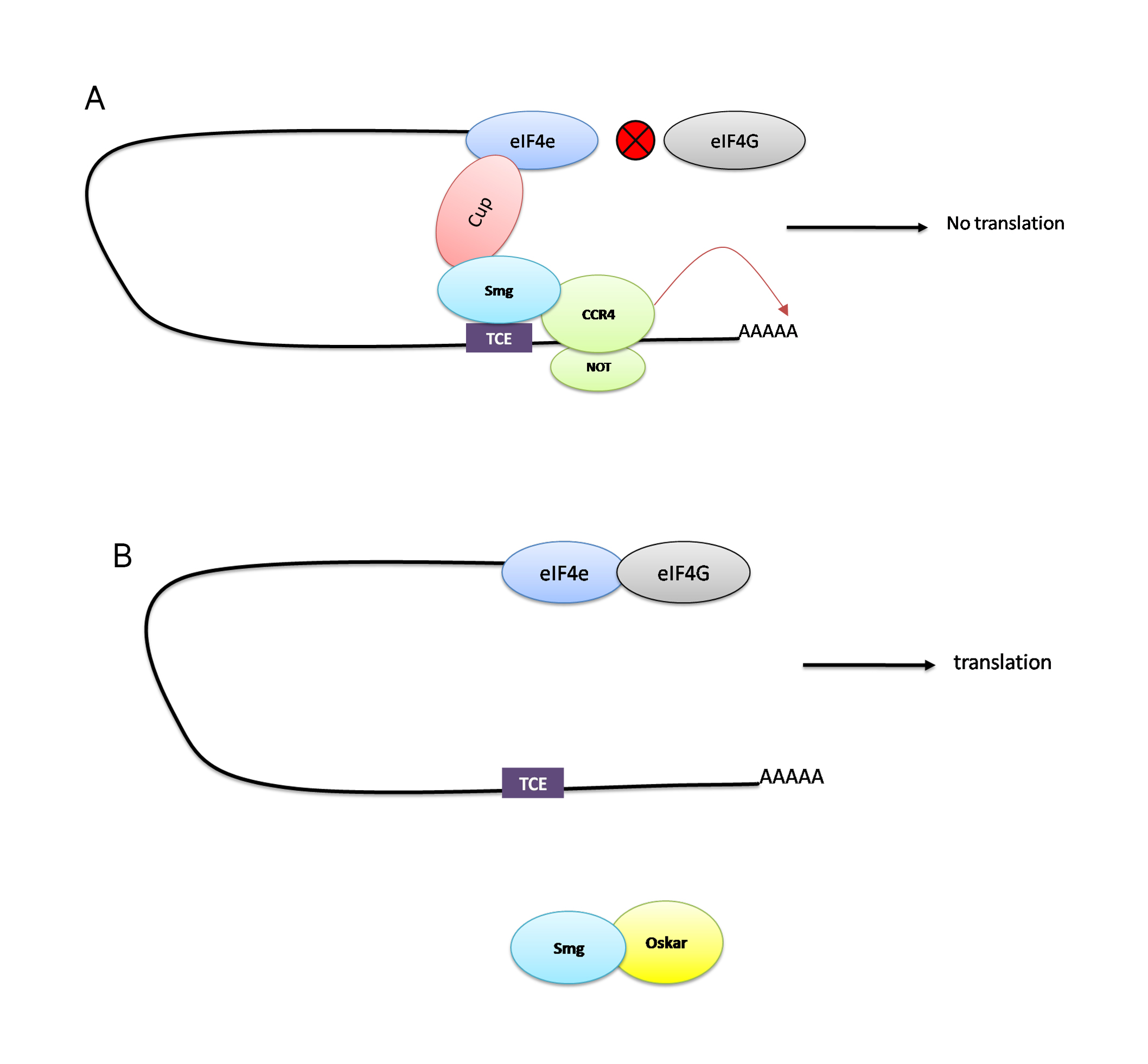 Translation of nanos mRNA is controlled by Smaug protein in Drosophila melanogaster. (A) Smaug, in the absence of Oskar protein, will bind with Drosophila Cup protein which inhibits the translational initiation by binding with eIF4e. It recruits deadenylation complex CCR4-NOT and causes a reduction in Poly-A-tail; considerably reducing the half-life of nanos mRNA. (B) At the same time at the posterior end of blastoderm Oskar binds with Smaug which allows nanos mRNA translation and formation of Nanos protein gradient in Drosophila blastoderm.